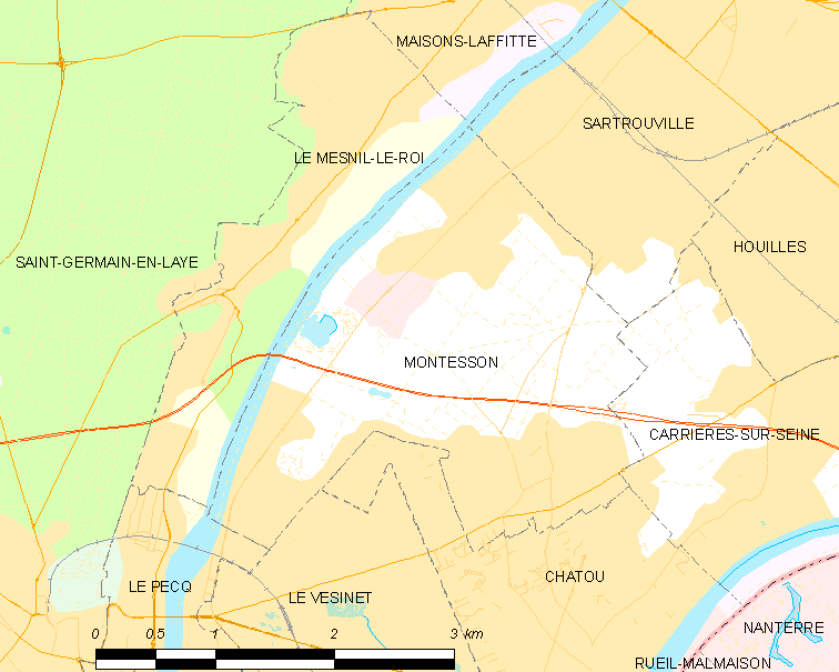 Map of French municipality Montesson